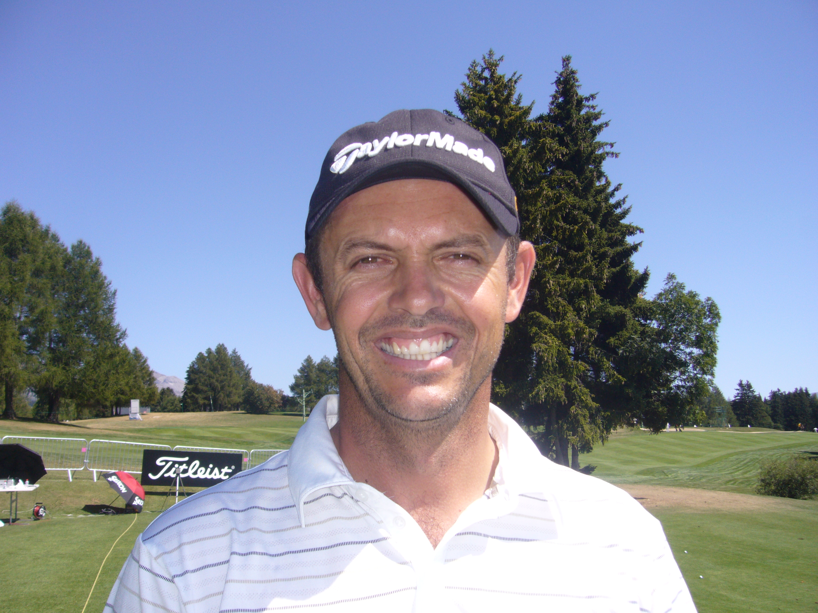 Andrew Coltart at the European Masters 2009 in Crans